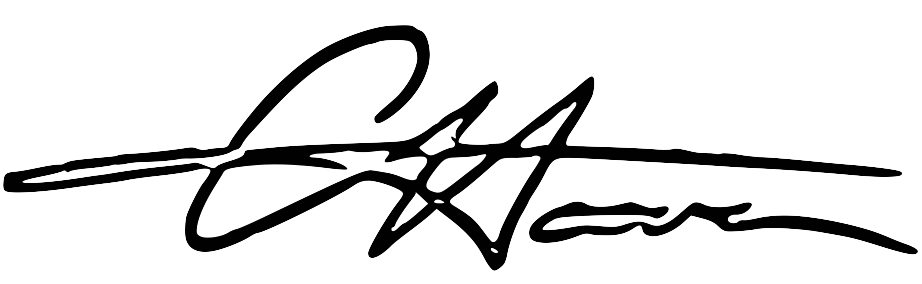 Colleen Hoover Signature